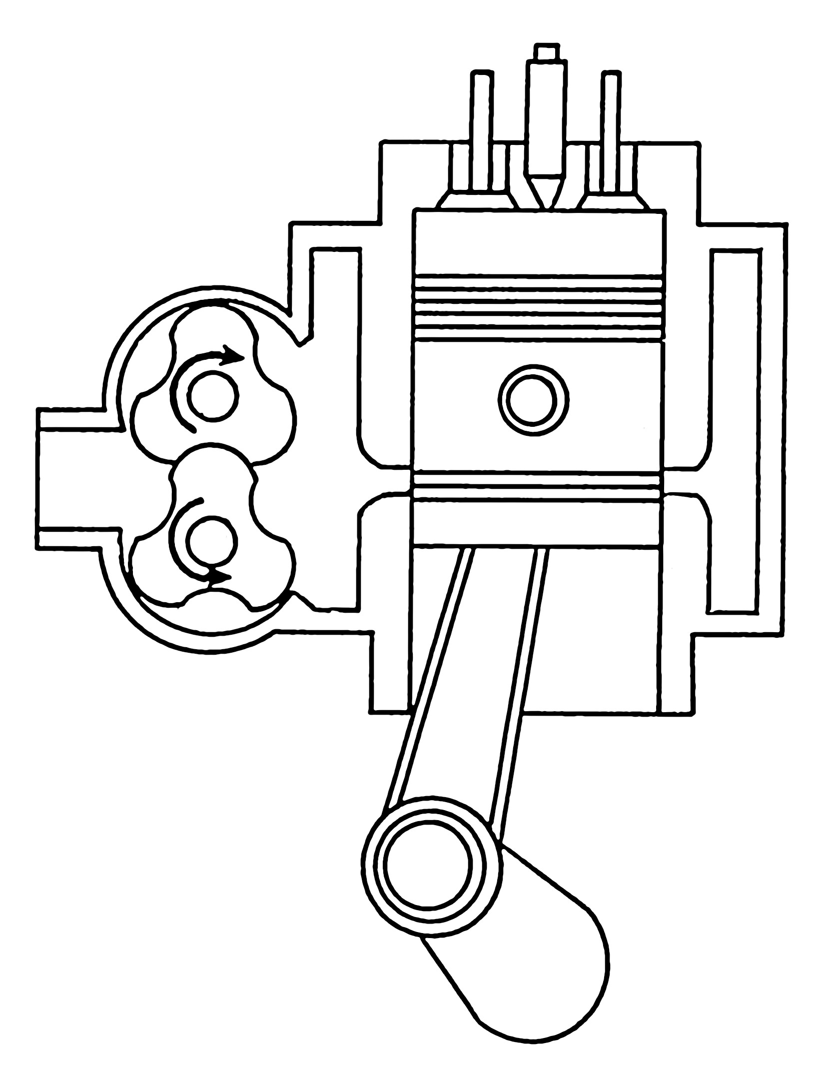 Line art drawing of a diesel engine.